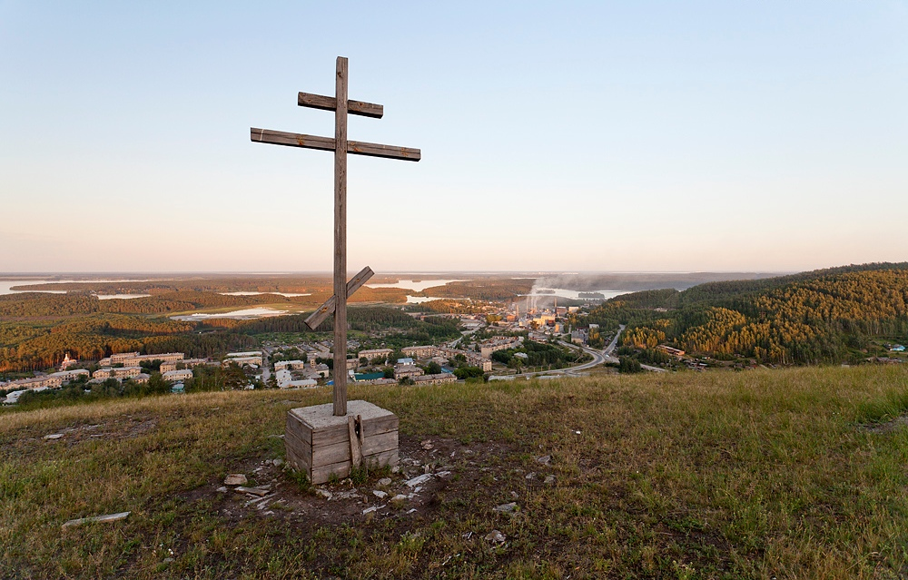 City Vishnevogorsk